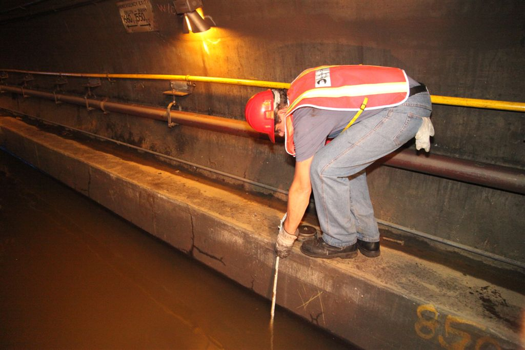 New York City Transit employees are pumping water out of the Cranberry Street Tunnel, which carries the A and C trains between Brooklyn and Manhattan underneath the East River. Photo: MTA New York City Transit / Leonard Wiggins